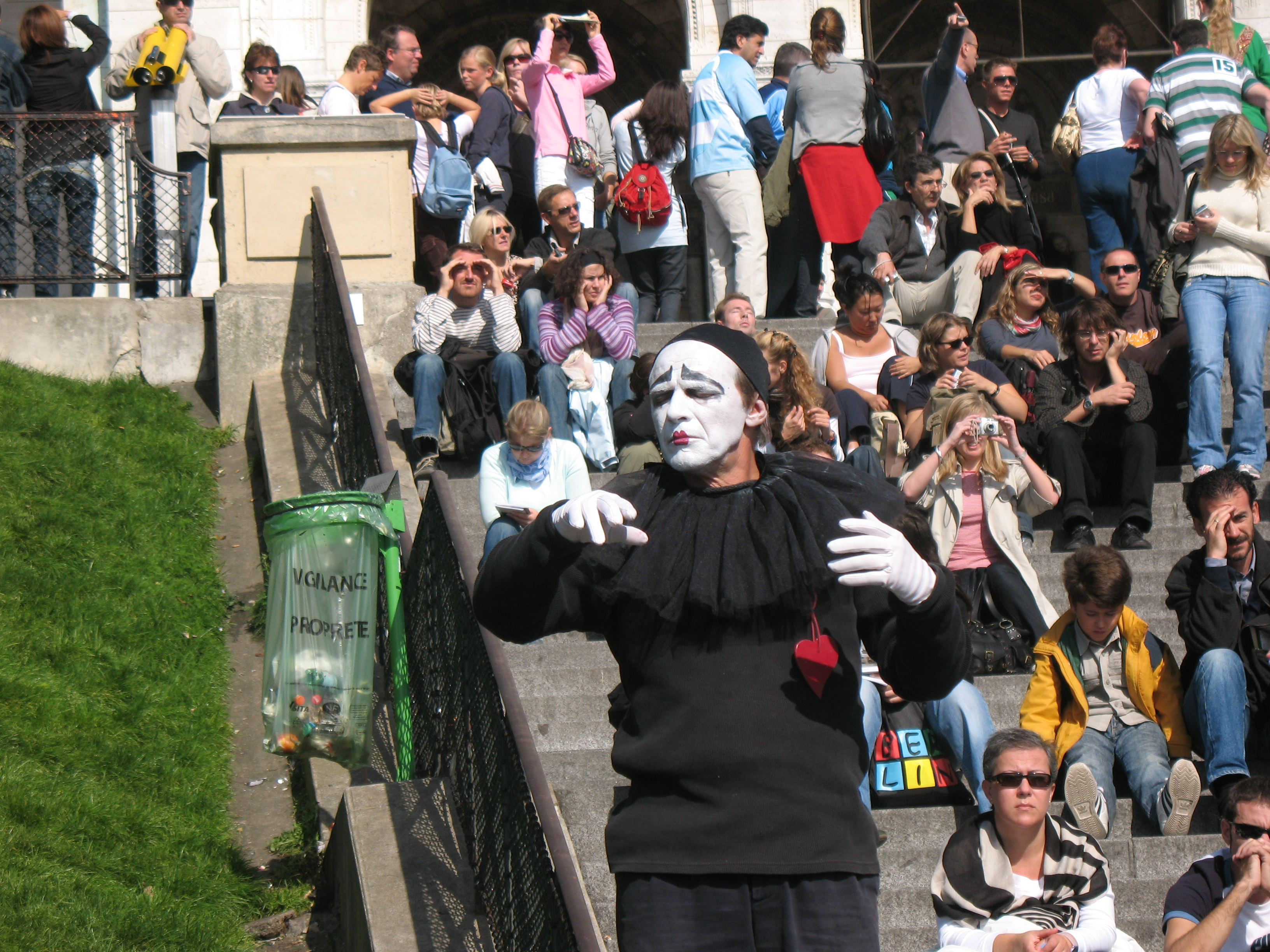 Parisian mime working for tips entertaining crowd.